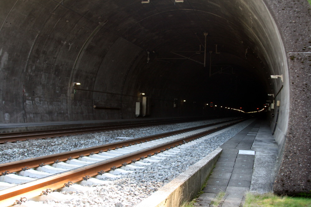 A view into Landrücken Tunnel, the longest tunnel in Germany. The picture was taken at the north portal, in southern direction, just outside the safe room next to the tracks.